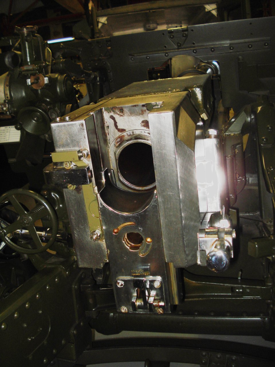 25 pounder breech at Canadian Military Heritage Museum in Brantford, Ontario